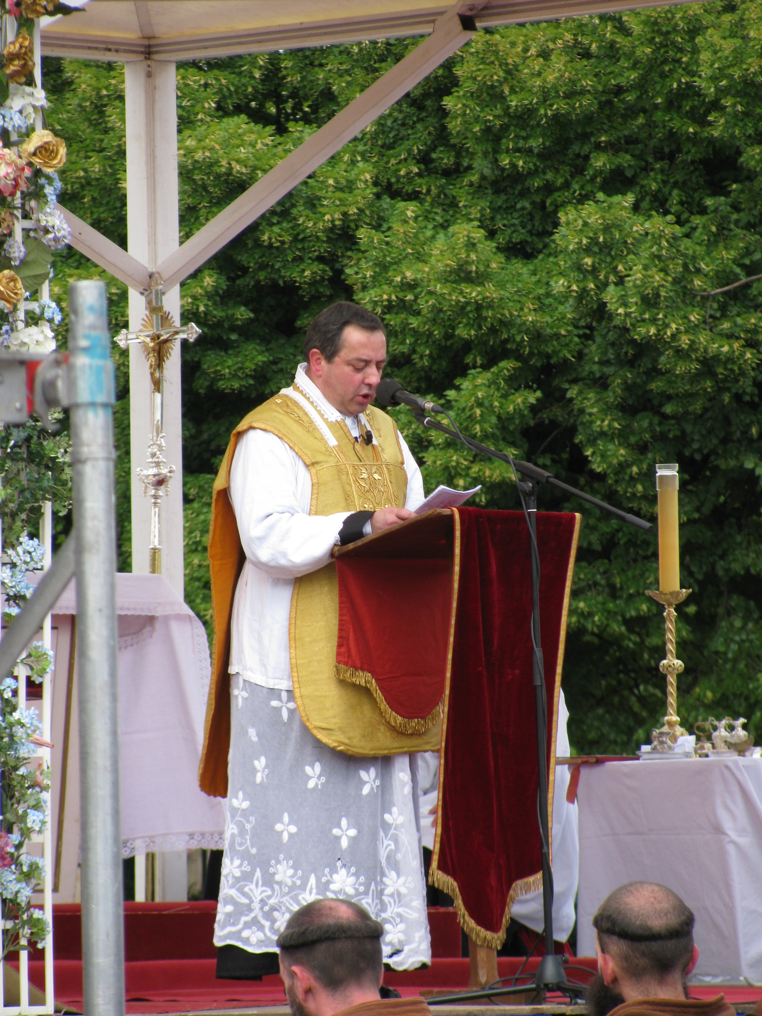 Jun 2011 - Pèlerinage de Tradition - pilgrimage from Chartres to Paris - sermon at the final Mass